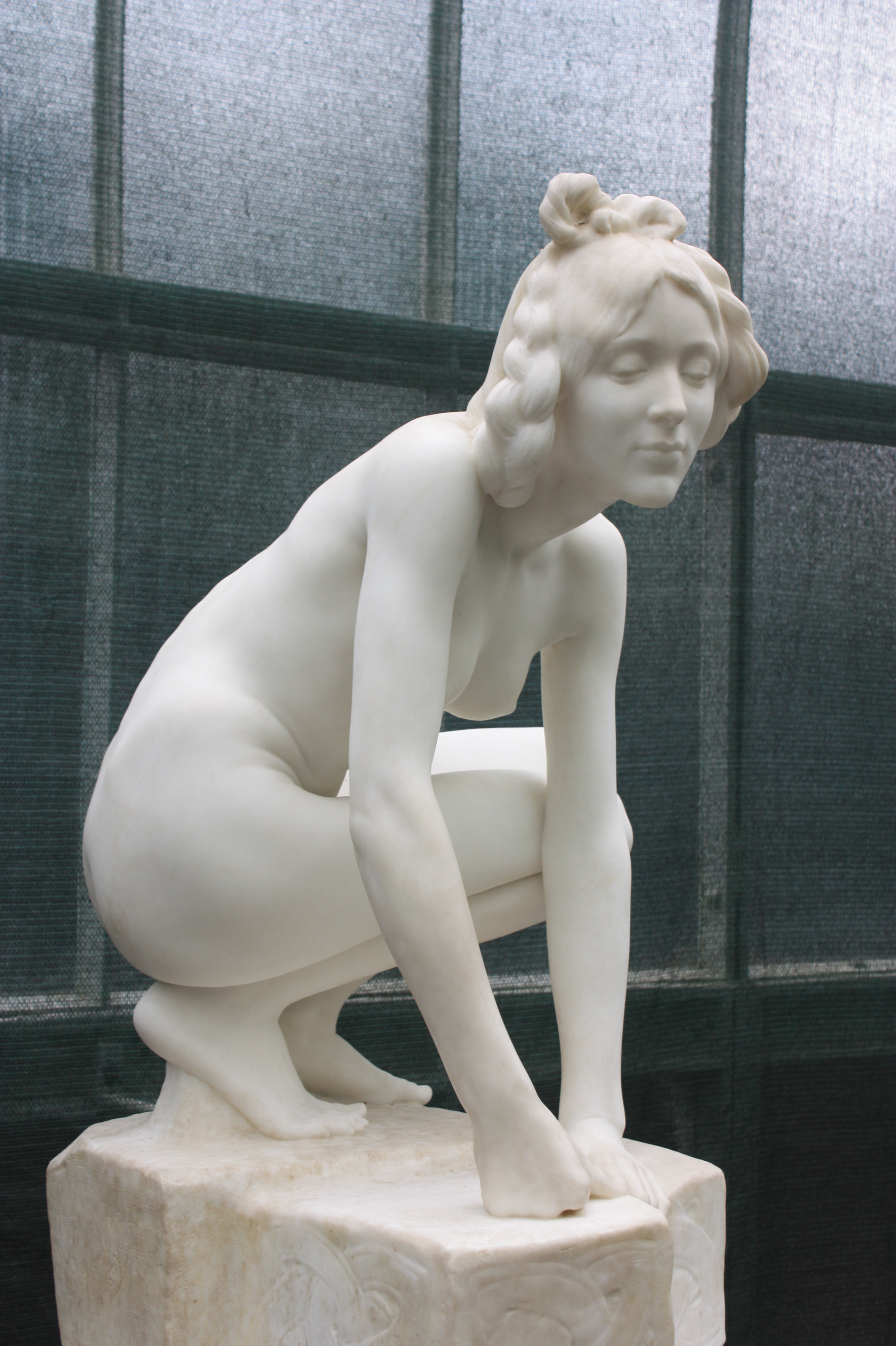 Elf by William Goscombe John, Kibble Palace